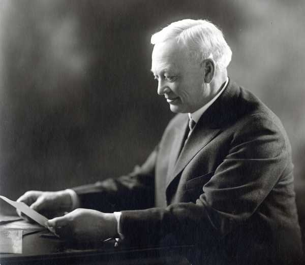 Profile photograph of James M. Hamiliton, president of Montana State College in Bozeman, Montana, USA, from 1904 to 1919.